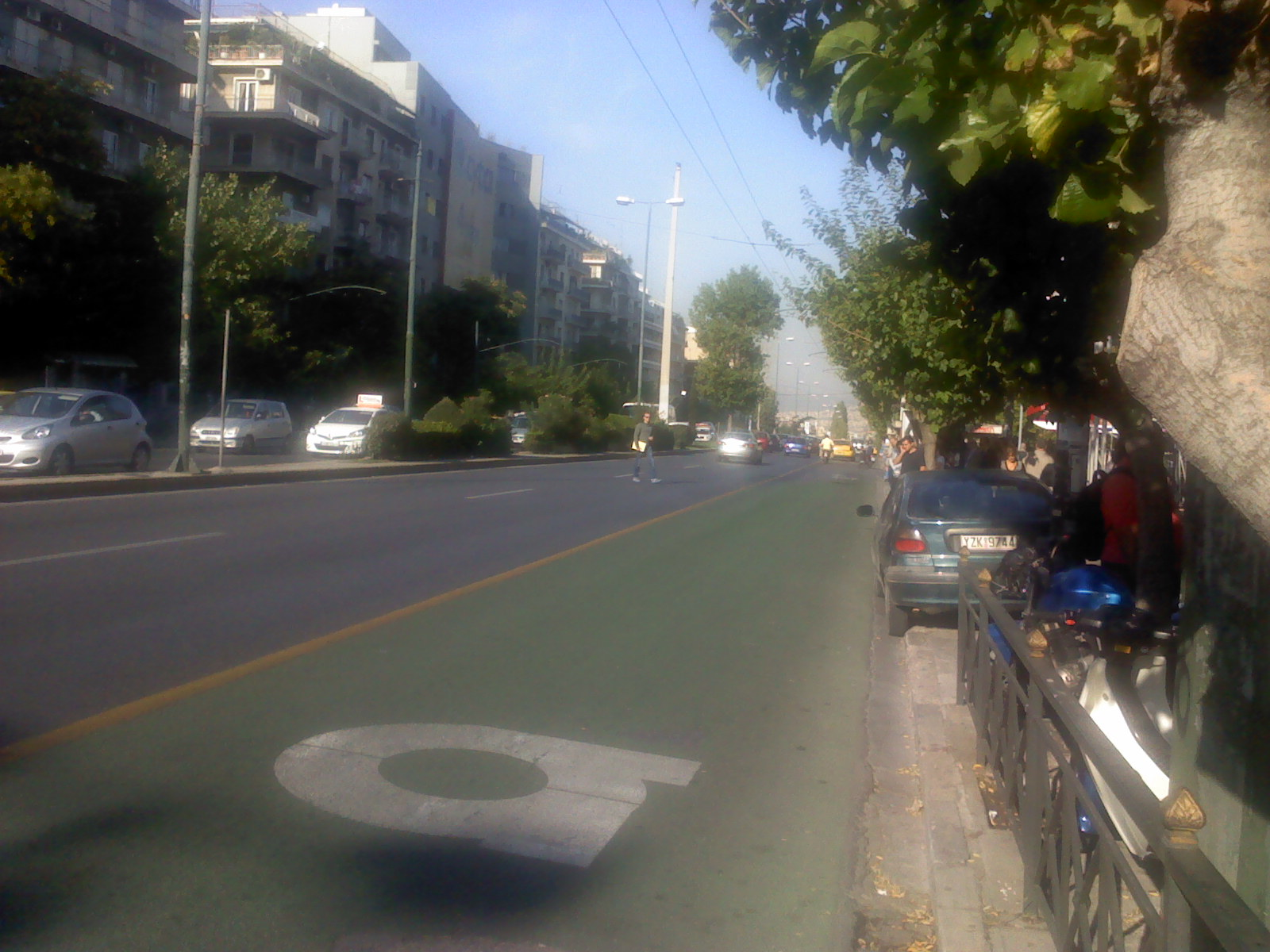 Avenue Alexandras Gizi